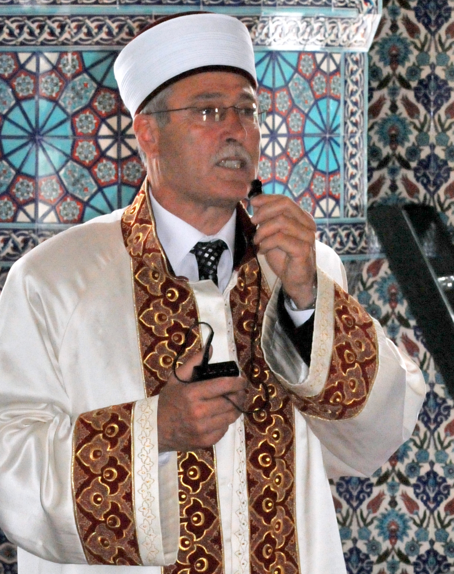 Portrait of elected Mufti of Komotini: İbrahim Şerif. The photo is from the Mosque in Filira village, Thrace, Greece.